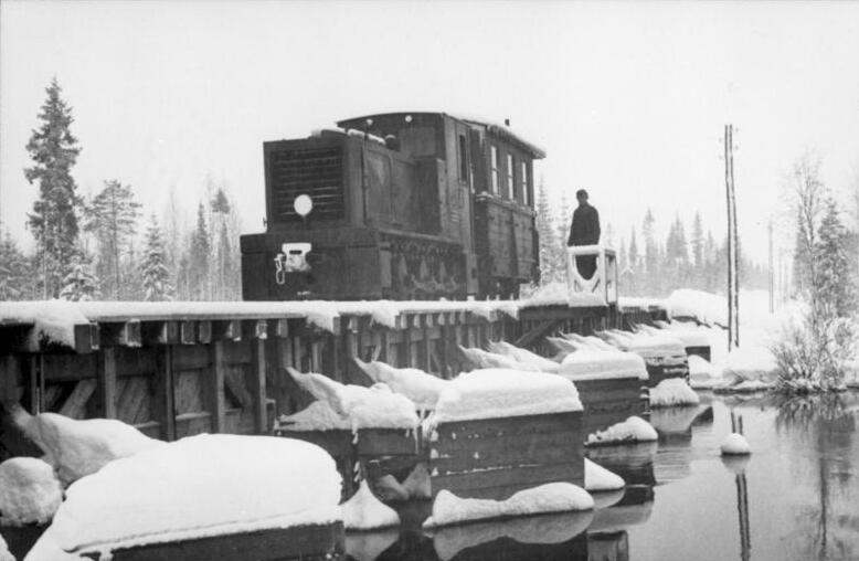 Information added by Wikimedia users.Location is a light railway Hyrynsalmi-Kuusamo in northern Finland. Railway (178 km) was built by Germans during 1942-1944, demolished 1944. Locomotive is a German Heeresfeldbahnlokomotive HF130C.